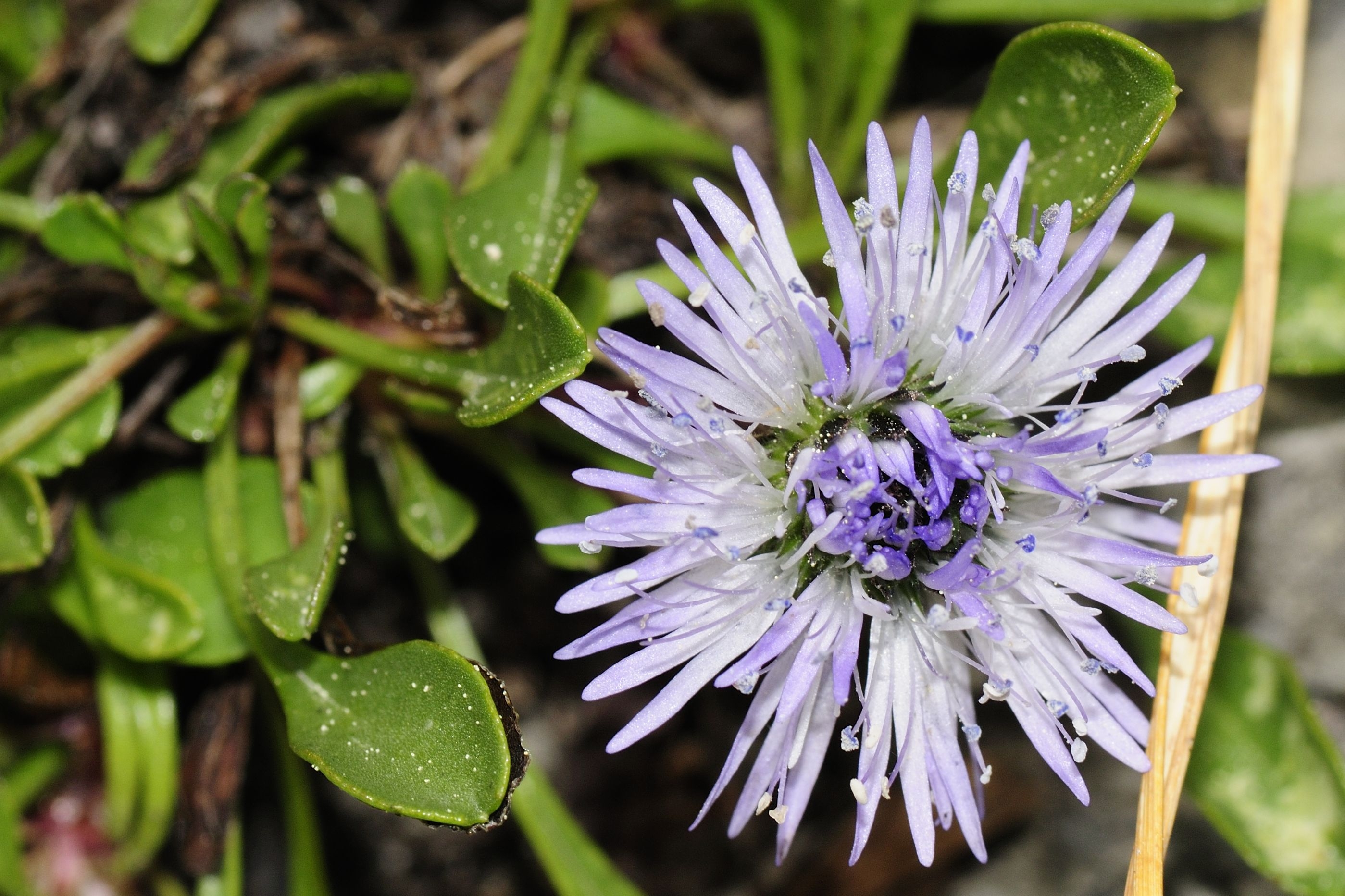 Please report references to .